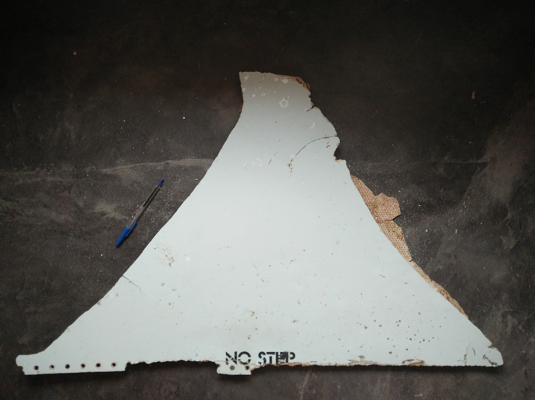 Debris washed ashore in Mozambique which may belong to Malaysia Airlines Flight 370 #MH370